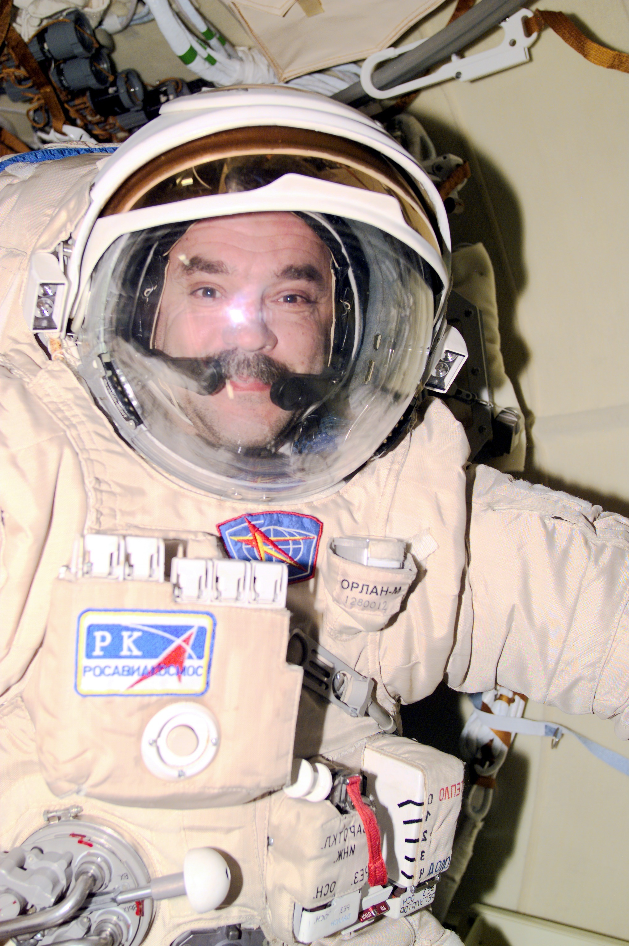 Cosmonaut Mikhail Tyurin, Expedition Three flight engineer, wears the Russian Orlan space suit as he prepares for an upcoming spacewalk from the Pirs Docking Compartment on the International Space Station (ISS). The first spacewalk is scheduled for October 8, 2001 which will be the first extravehicular activity (EVA) from the station without a Space Shuttle present. Tyurin represents Rosaviakosmos. This image was taken with a digital still camera.